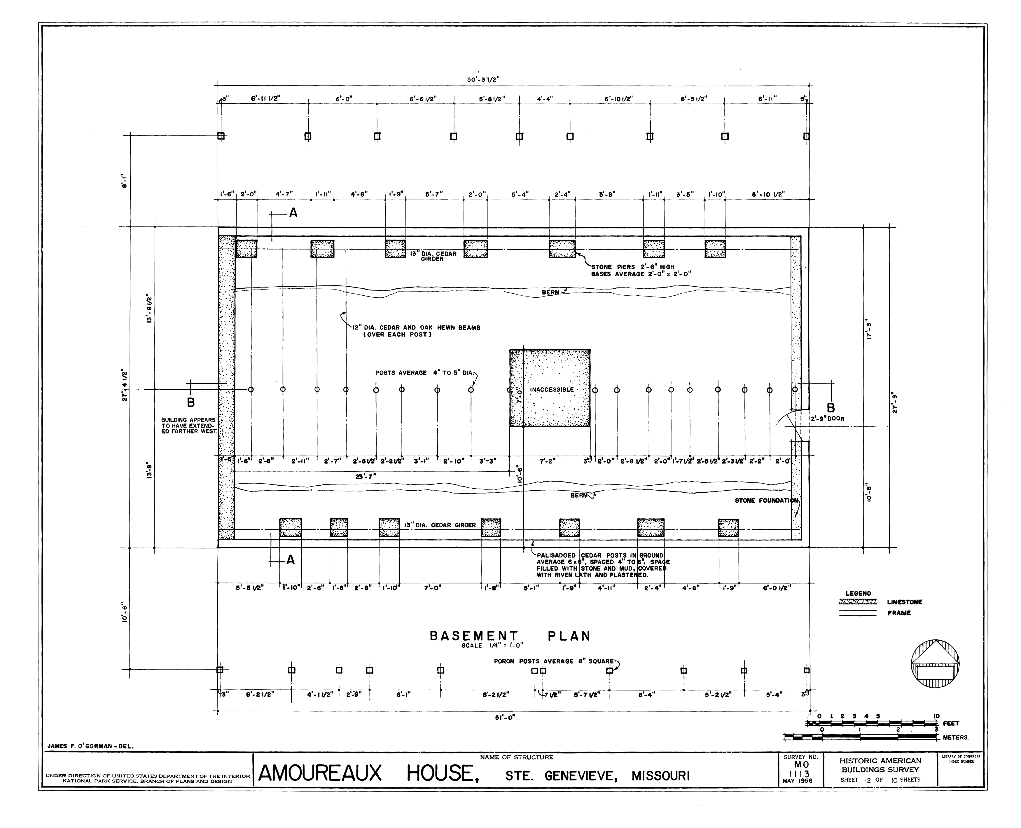 This is a measured drawing showing basement plan and structural foundations of the Amoureaux House in Ste. Geneviève, Missouri. The Amoureaux House, sometimes called the Bauvais-Amoureux House, was built in in 1793 in Ste. Geneviève, Missouri. It was built by Benjamin Amoureaux, who came from France. It is currently operated as a museum by the Missouri Department of Natural Resources. It is one of three poteaux-en-terre buildings that survive. The others are the Bequet-Ribault House and the Vital St. Gemme Beauvais House I (20 S. Main Street).